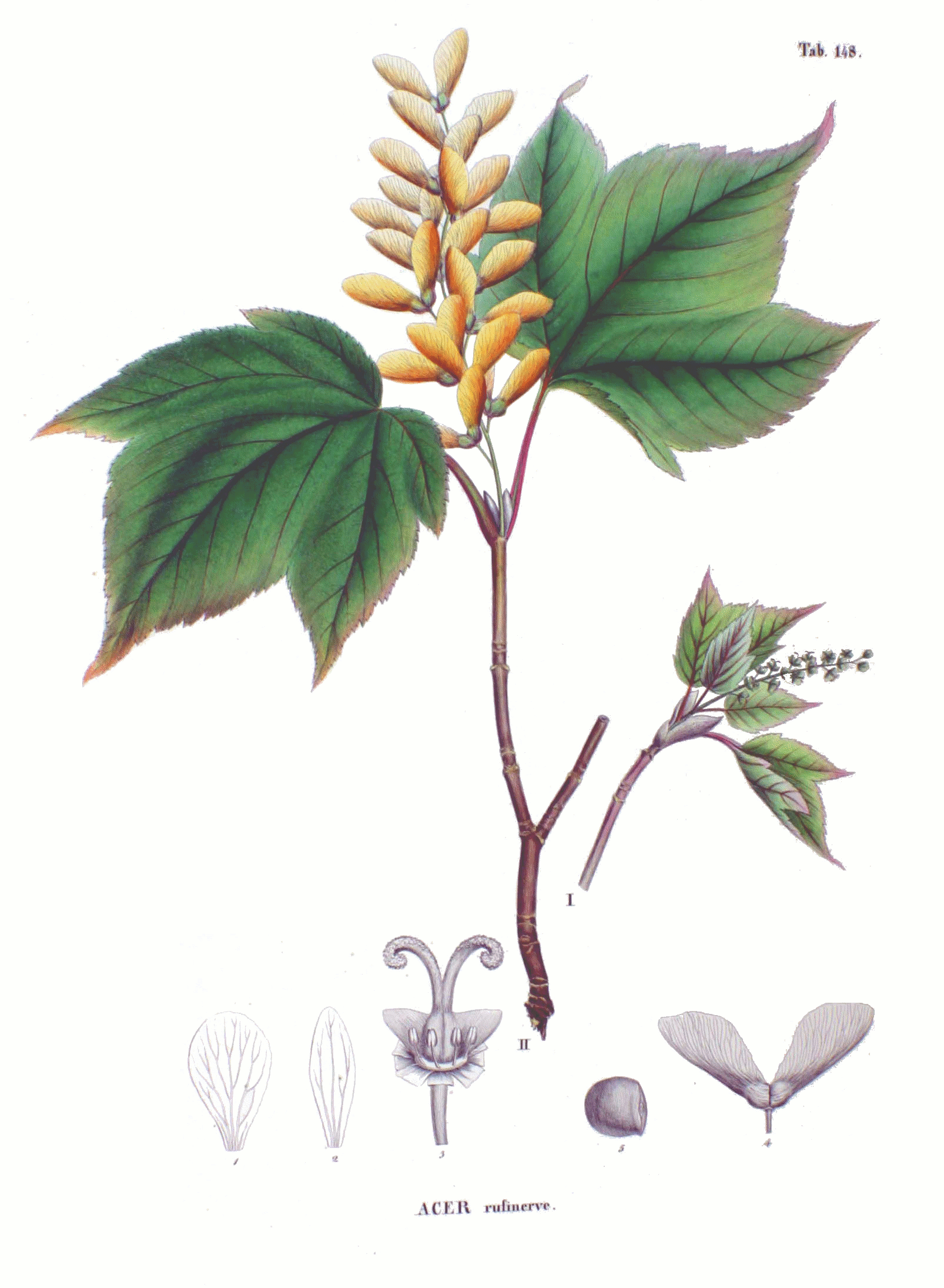 Plate from book